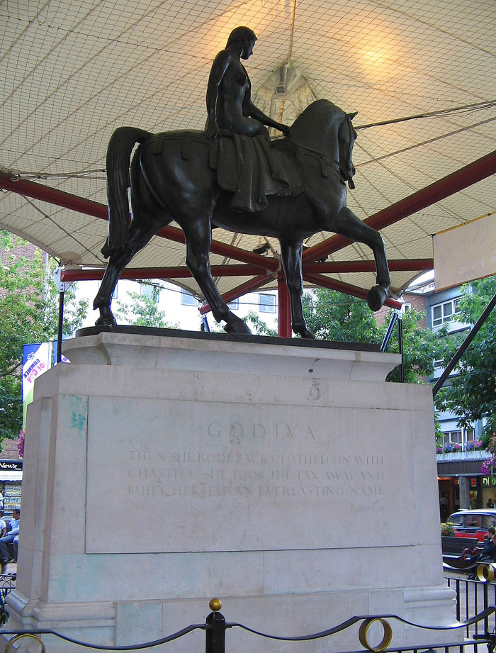 Statue of Lady Godiva by Sir William Reid Dick in Coventry city centre. unveiled at midday on 22 October 1949 in Broadgate, Coventry